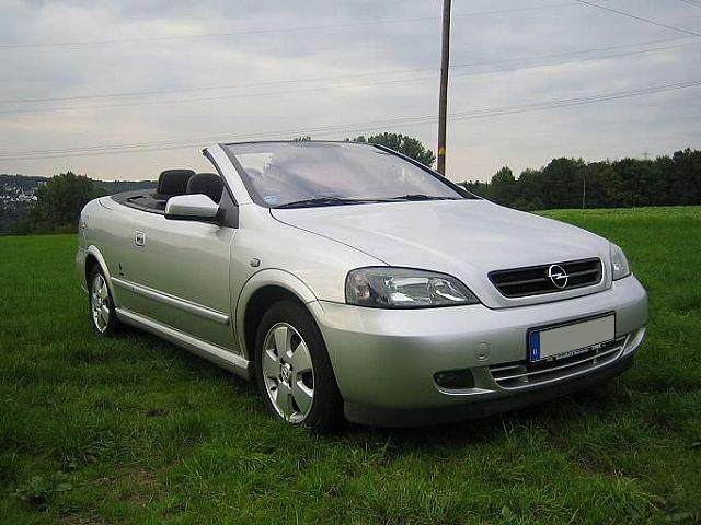 Opel Astra G Bertone cabrio